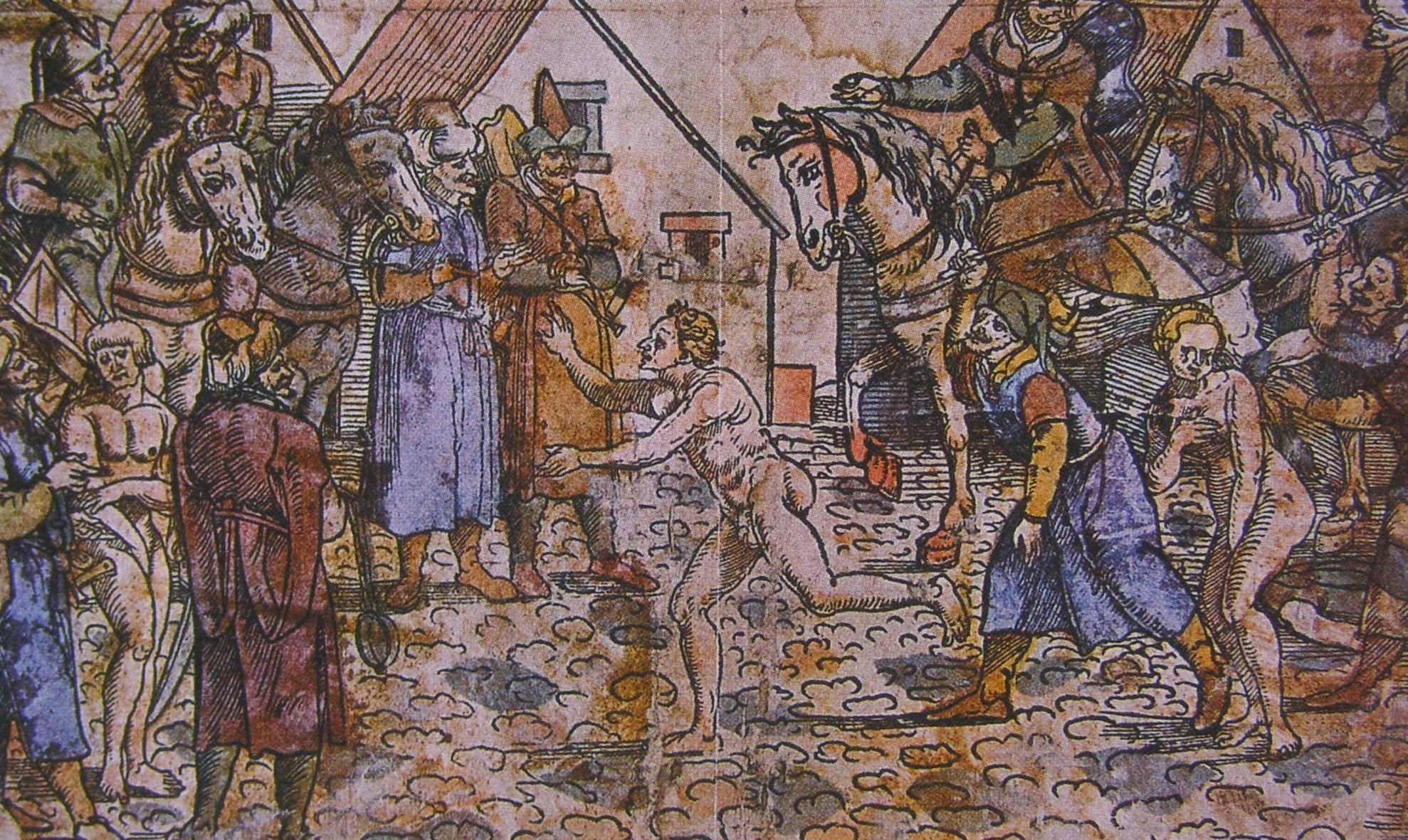 English